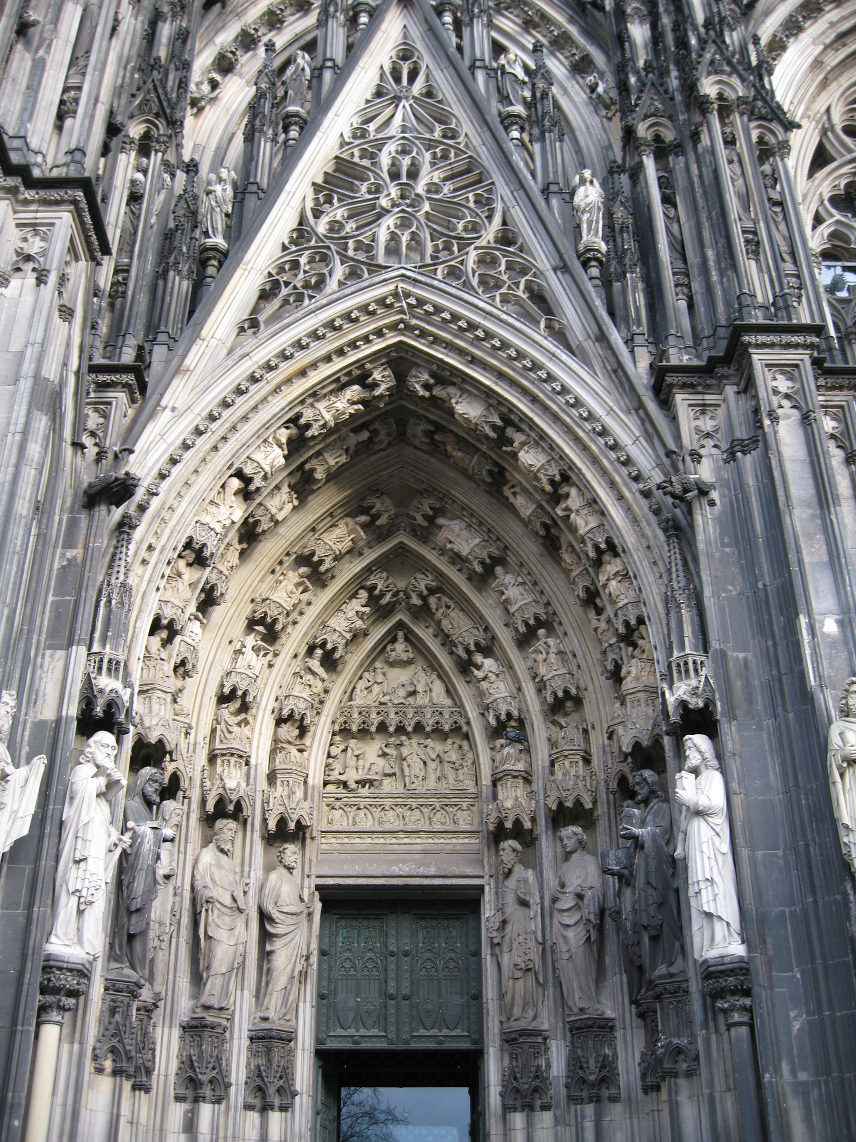 Cologne Cathedral